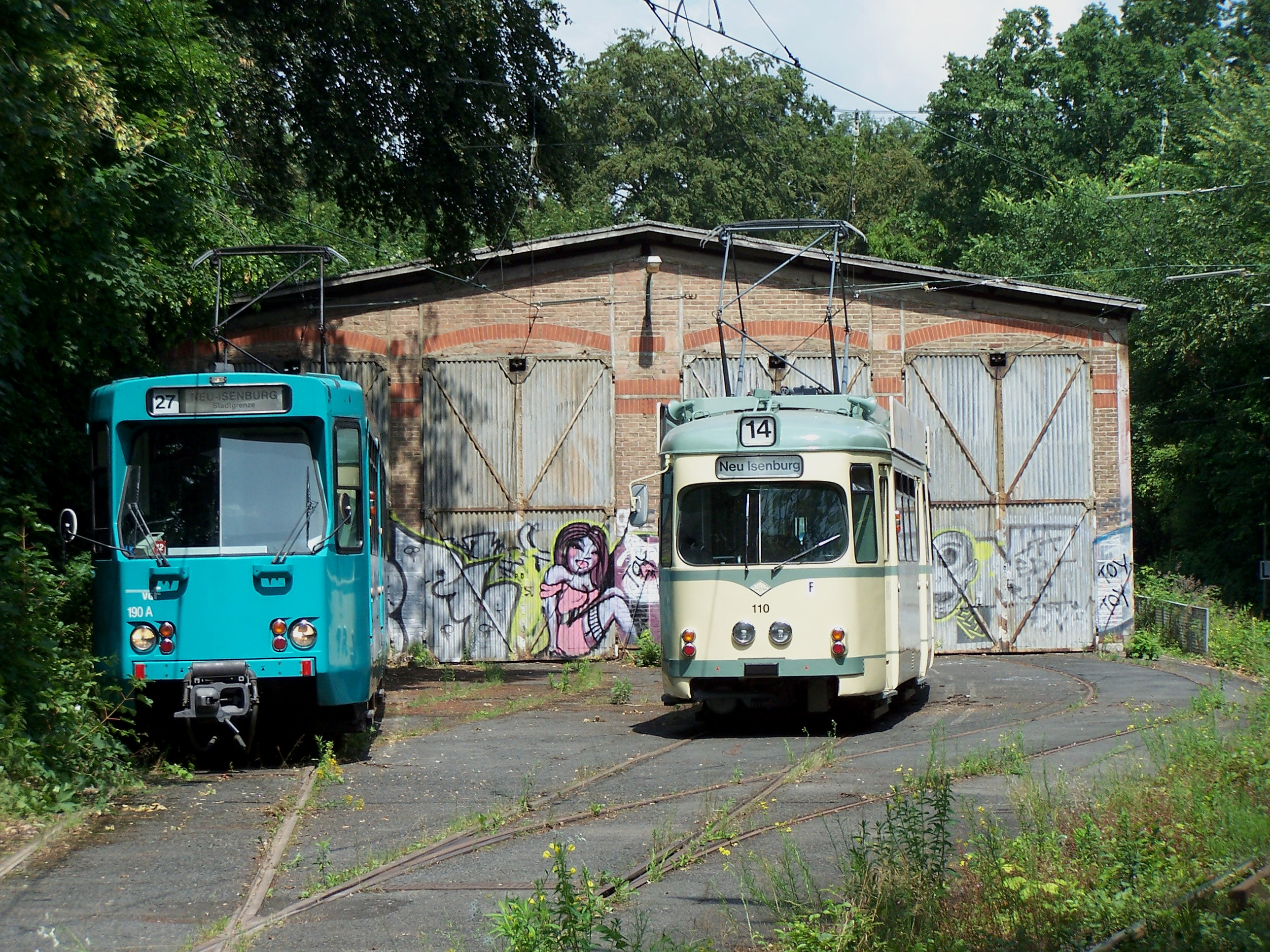 Wagenhalle (Tram Depot) of the Frankfurter Waldbahn near Neu-Isenburg with tram type O 110 (ex 908) and tram type Pt 190 (ex 690) in July 2009